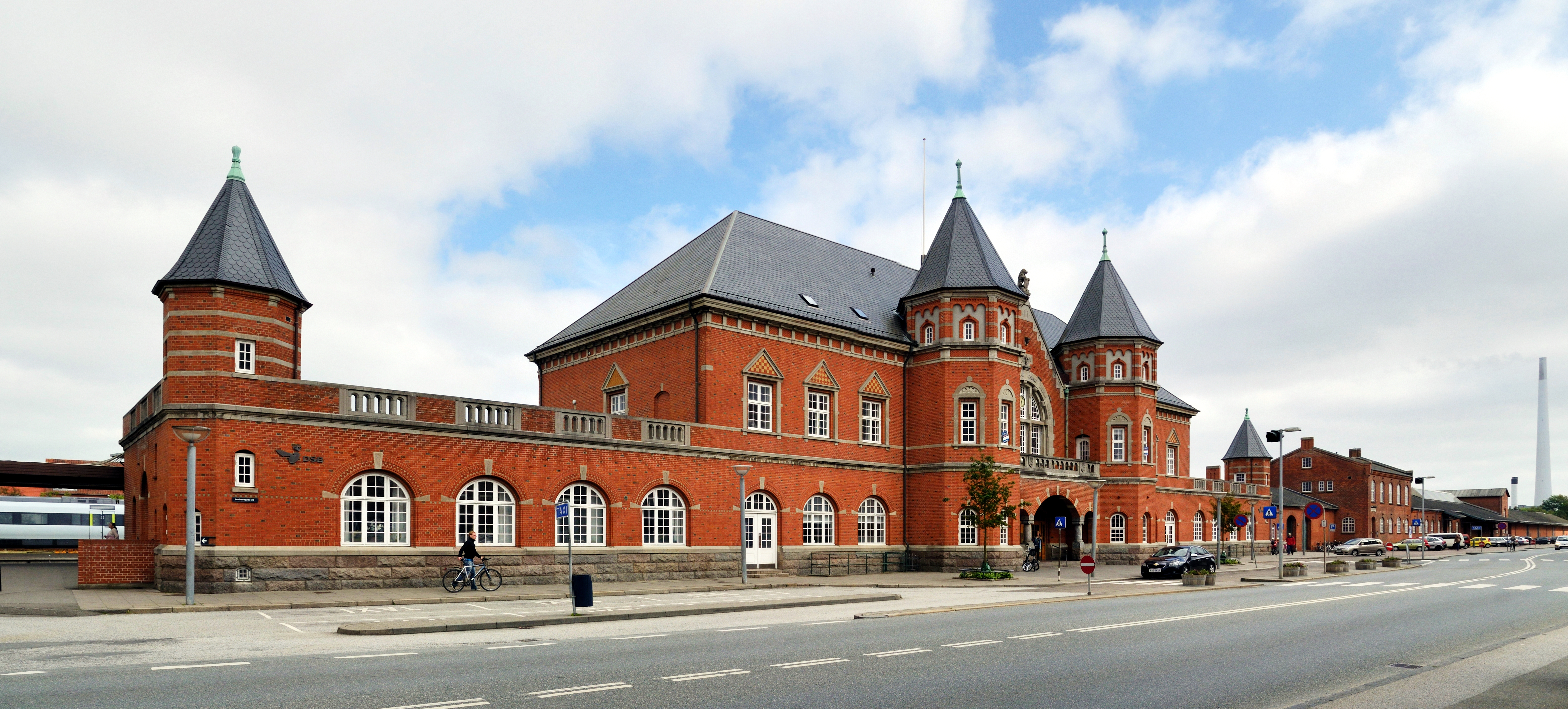 Esbjerg: central station